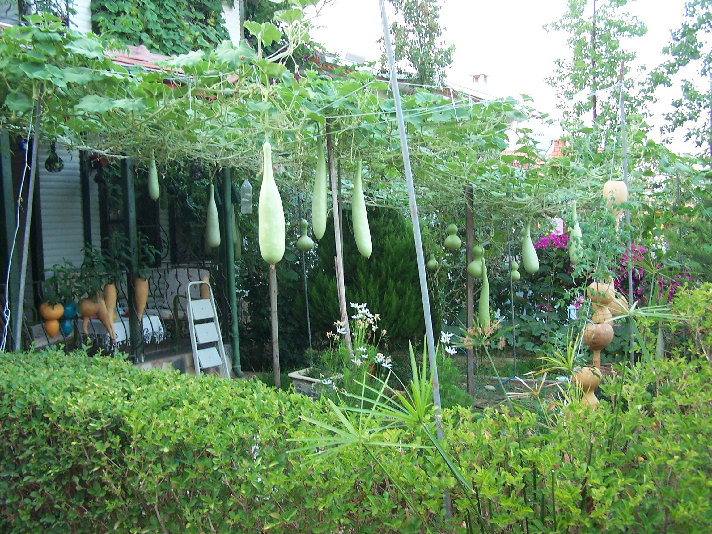 The calabash or bottle gourd, Lagenaria siceraria, growing on and fruits dangling from a pergola in Turkey.